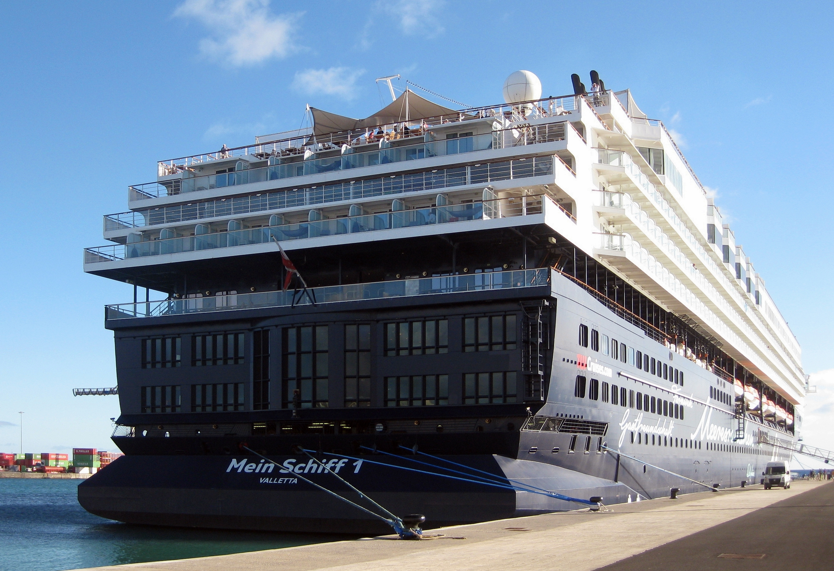 Spain, Canary Islands, Fuerteventura: Cruise Ship "Mein Schiff 1" (TUI Cruises) at port of Puerto Del Rosario.